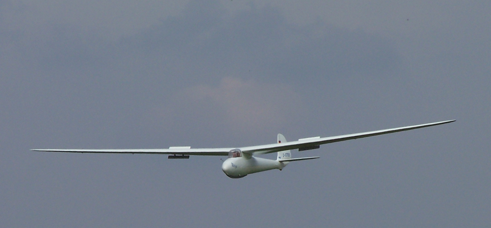 glider Weihe, D-0700, airfield EDMB 20050925, pilot Peter Ocker